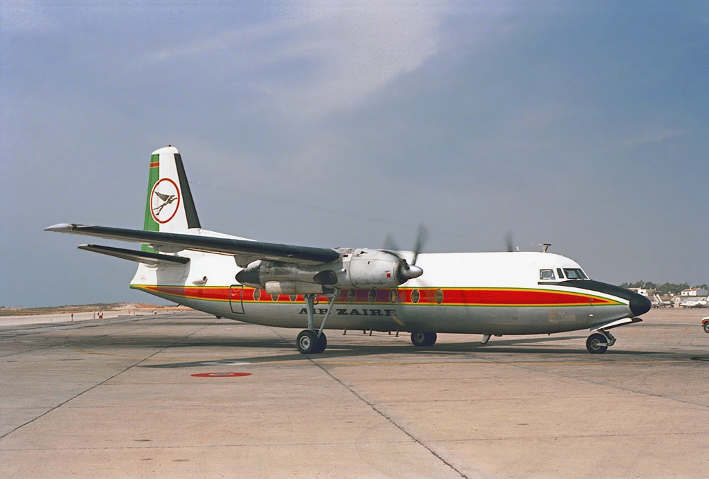 An Air Zaïre Fokker F-27-600 Friendship at Faro Airport (FAO / LPFR)